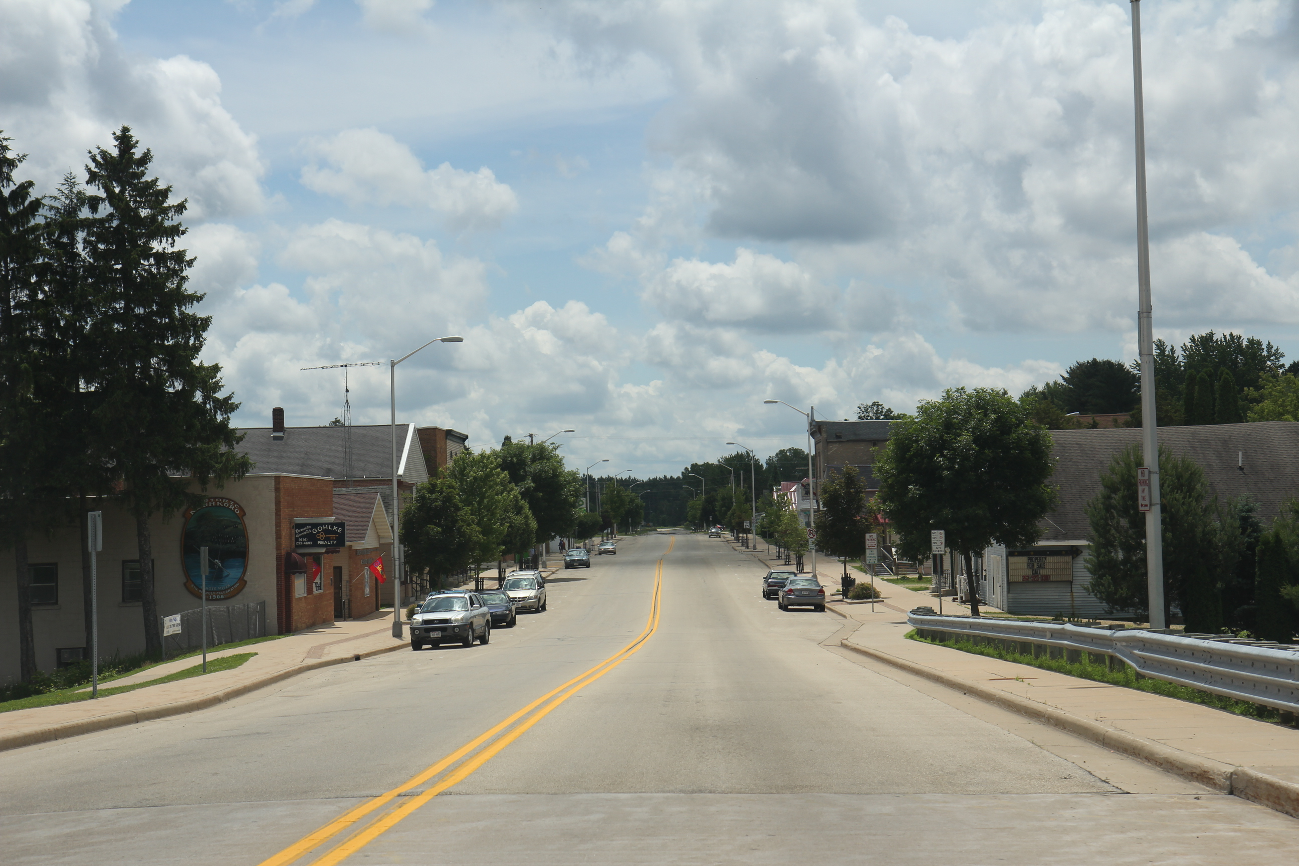 Looking south at downtown Neshkoro, Wisconsin on Wisconsin Highway 73.